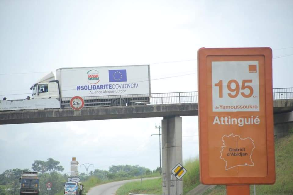 This is an image with the theme "Africa on the Move or Transport" from: Ivory Coast